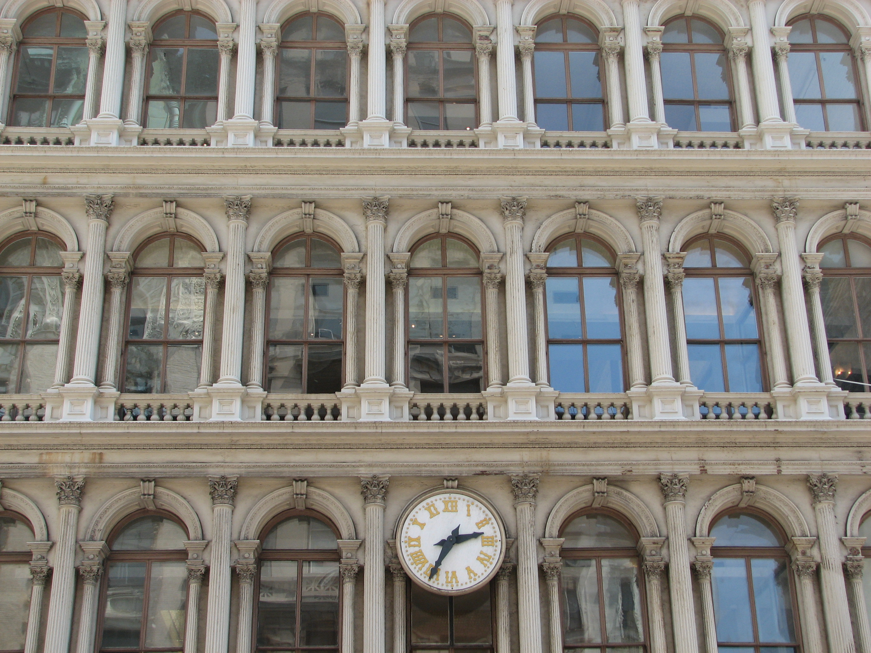 E.V. Haughwout & Co. was a dry-goods retailer who, in its day, was held in such esteem it supplied the Pierce and Lincoln white houses with china. The building that once housed its store from 1857 to 1870 has one New York's earliest surviving cast-iron fronts--according to historian Margot Gayle, the best--and also housed the world's first passenger elevator. I say a bit more about this fine building on my New York City landmarks blog, The Masterpiece Next Door. National Register Numbers E.V. Haughwout Building: 73001218 SoHo Historic District: 78001883